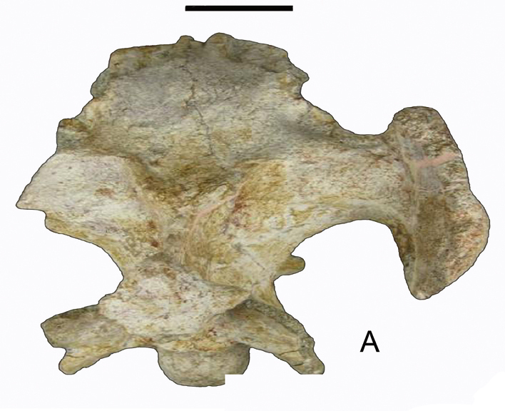 Arcovenator escotae (Theropoda, Abelisauridae), braincase (MHNAix-PV 2011-12) in dorsal view (Lower Argiles Rutilantes Formation, Jas Neuf Sud, Var)